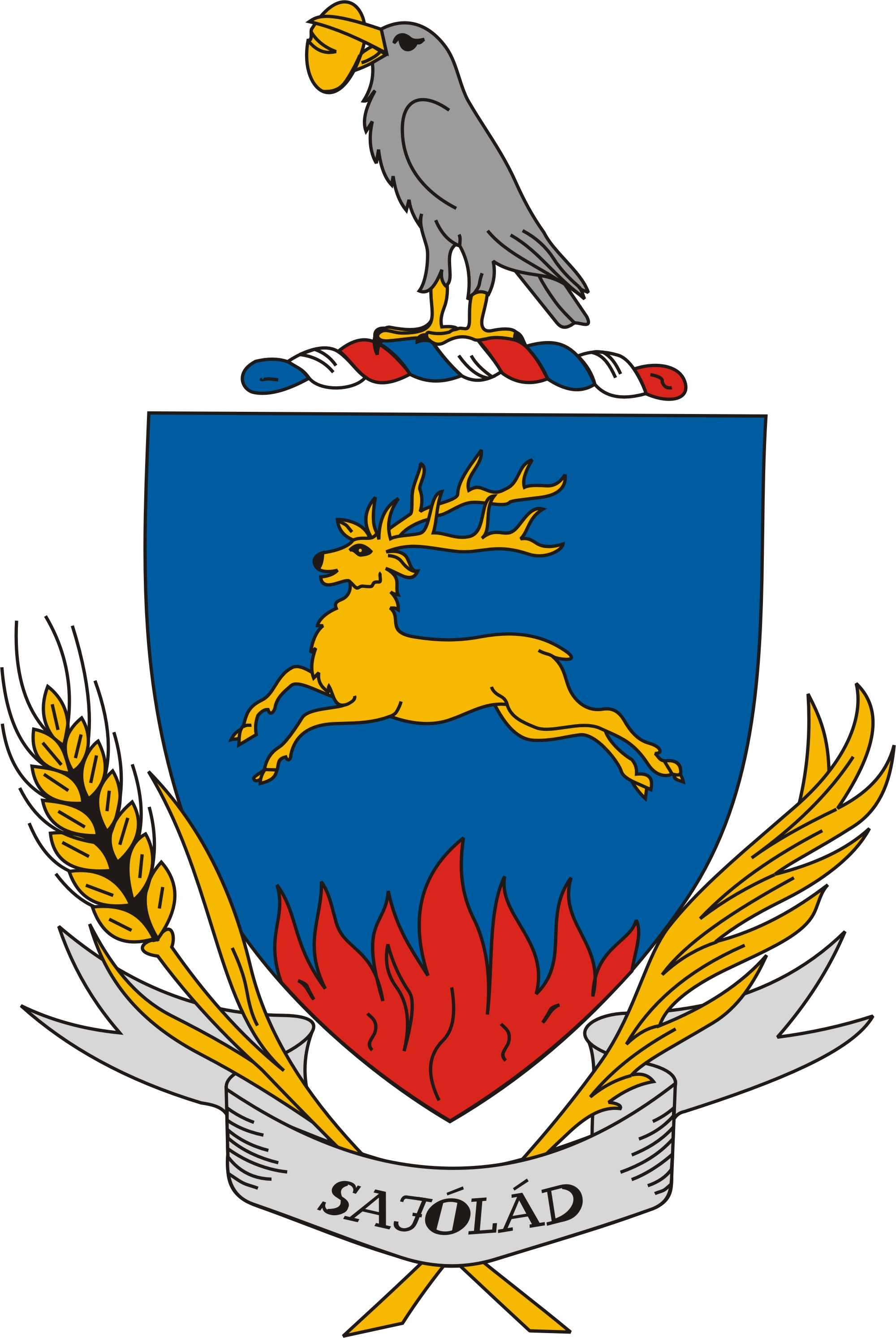 Coat of arms of Sajólád, Hungary